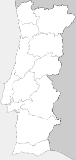 Former provinces of Portugal Created by User:Brian Boru in September 2005, based on a map created by Jorge Candeias.